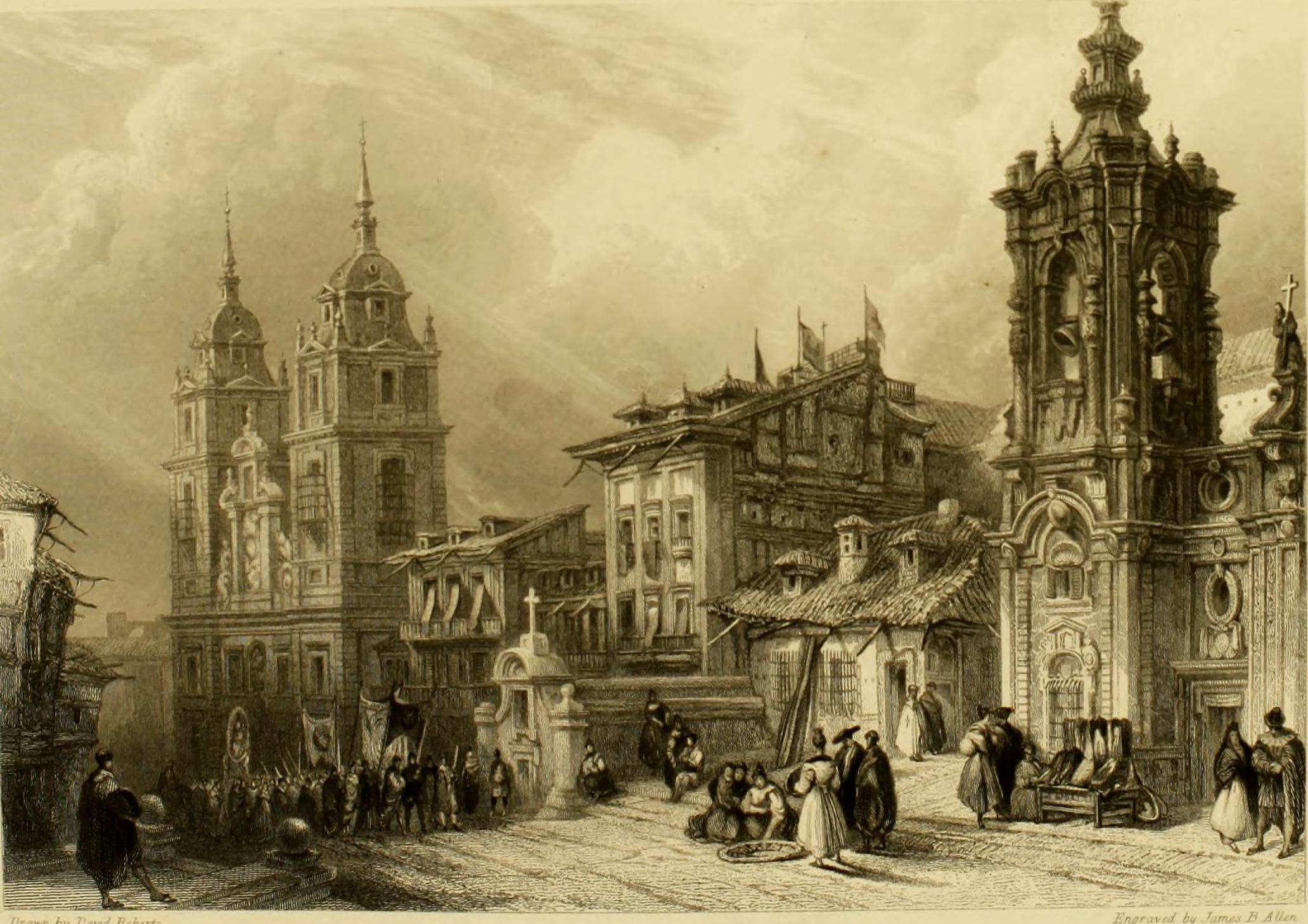 Title: Picturesque views in Spain and Morocco : comprising Granada, with the palace of the Alhambra, Andalosia, Castile, Valencia, Gibraltar, Tangiers, Tetuan, Morocco, the town of Constantina, etc. Year: 1838 (1830s) Authors: Roberts, David, 1796-1864 Roberts, David, 1796-1864, signer. UPB Subjects: Publisher: London : Robert Jennings Text Appearing Before Image: ' Text Appearing After Image: '